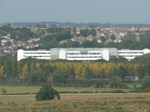 Image of the Nationwide Building Society Headquarters Building in Swindon.